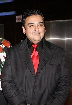 singer and musician Adnan Sami at the release party of his album Kisi Din